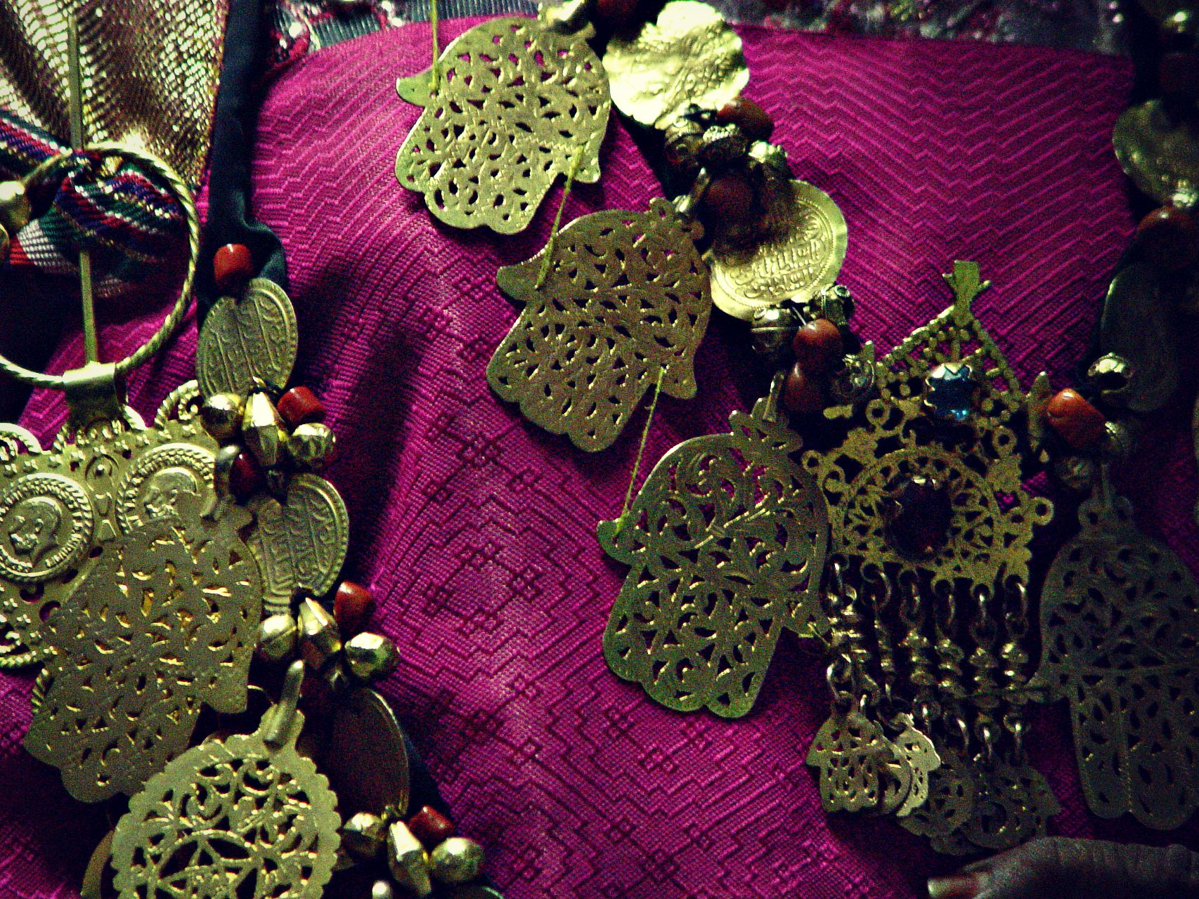 Gold jewelry placed on clothes in ceremonies in southern Tunisia, called "Khomsa" (five) because it looks like a human hand composed of five fingers. It brings god's blessing. This is an image of Cultural Fashion or Adornment from Tunisia